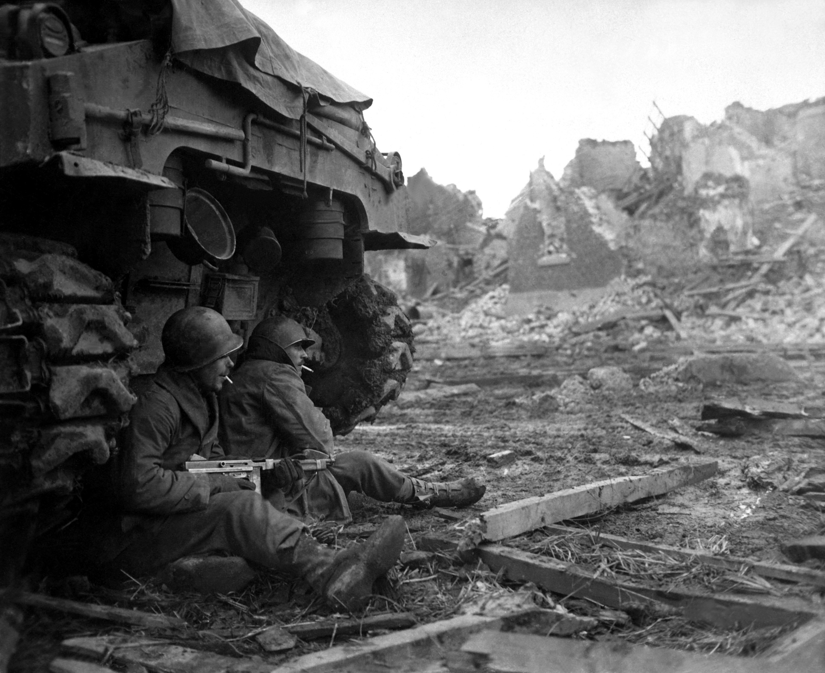 Two U.S. soldiers of C Company, 36th Armored Infantry Regiment, 3rd Armored Division seek shelter behind a M-4 Sherman tank at Geich, near Düren, Germany, on 11 December 1944. Original caption:' "With German shells screaming overhead, American Infantrymen seek shelter behind a tank. In the background can be seen the ruins of the town of Geich, Germany, which is still under heavy shelling. December 11, 1944.